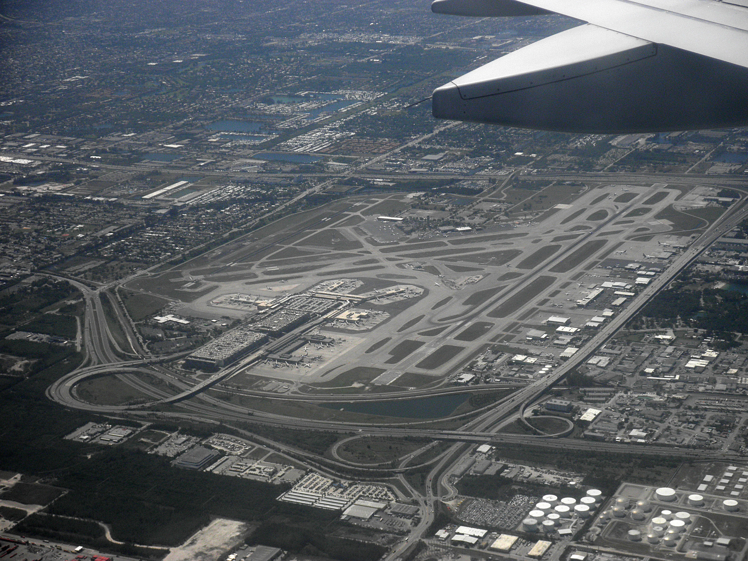 Fort Lauderdale - Hollywood International Airport seen from the air as the plane is about to land.